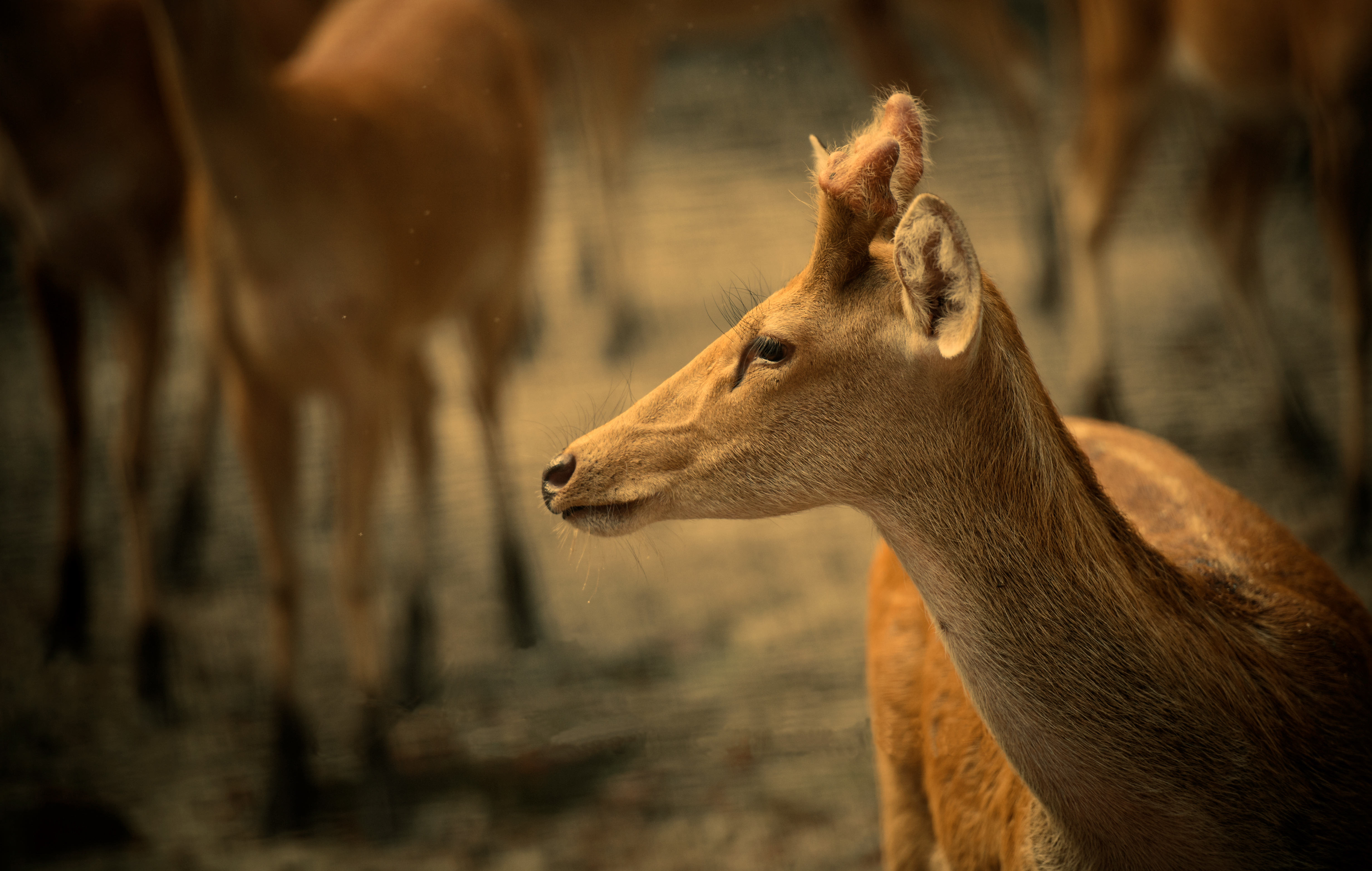 Deer in Dudhwa National Park, Lakhimpur Kheri, Uttar Pradesh, India